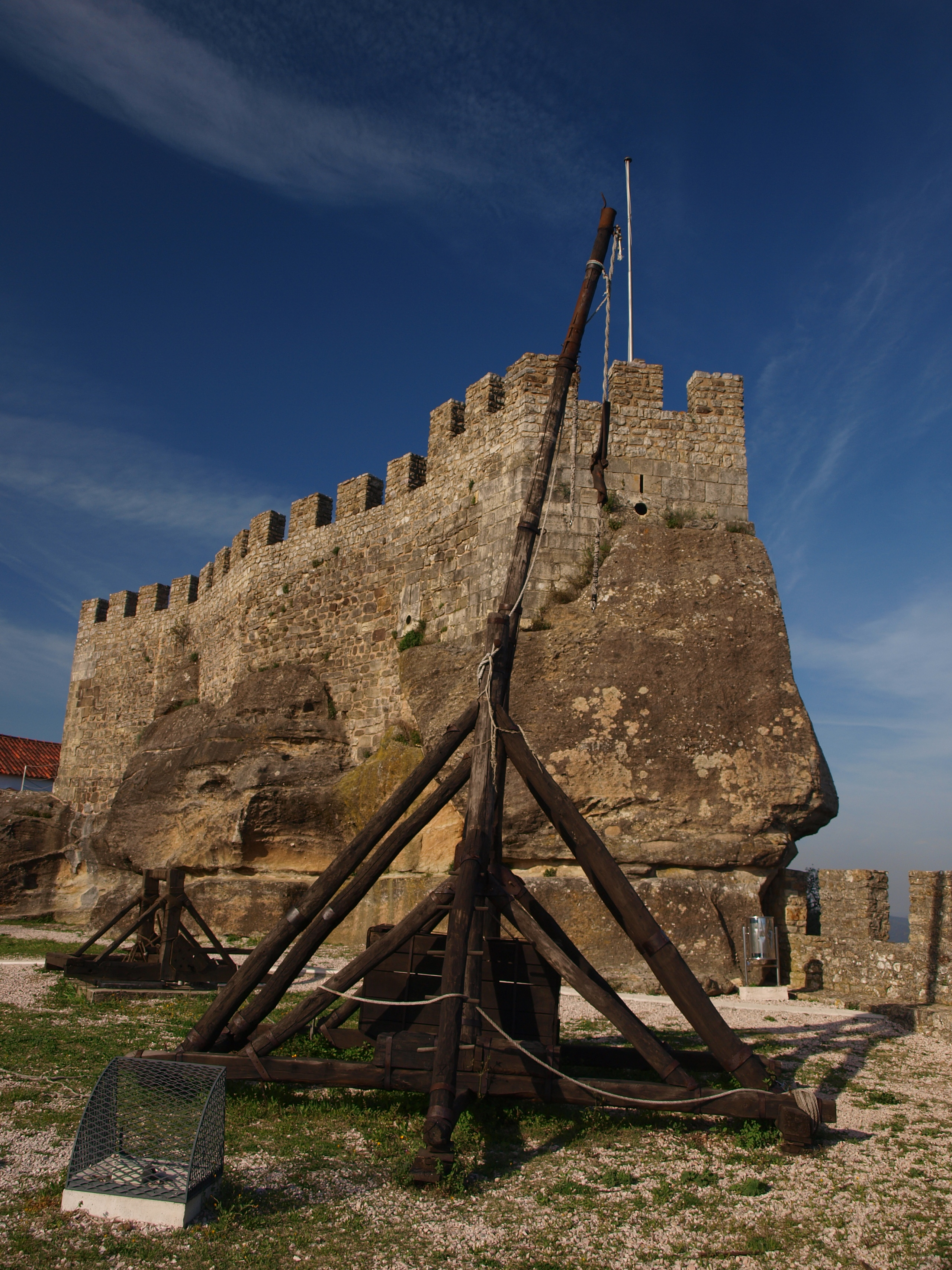 View from within the walls of the castle of Penela, Coimbra, Portugal.